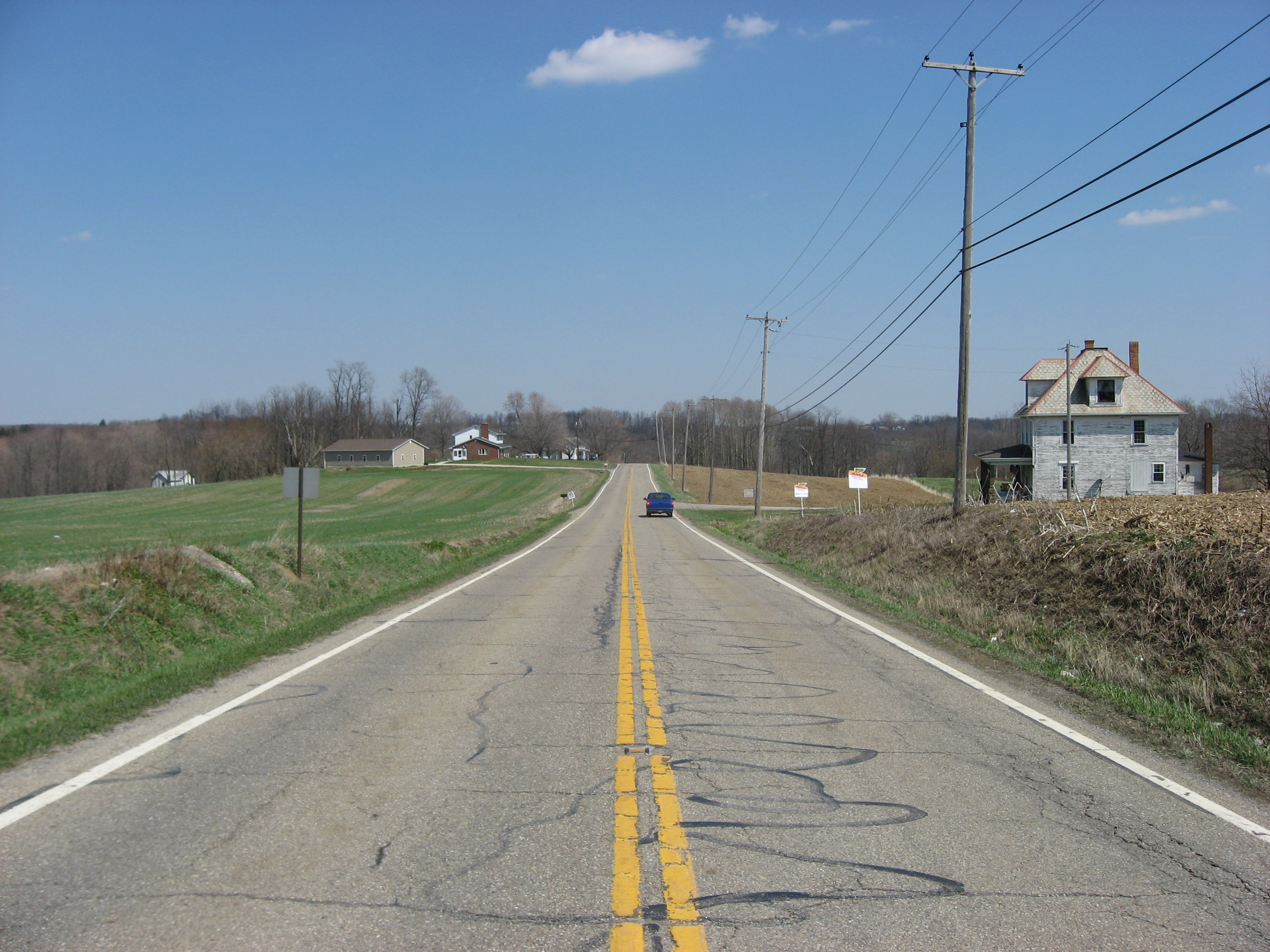 Eastward along State Route 558 east of East Fairfield in southwestern Unity Township, Columbiana County, Ohio, United States.